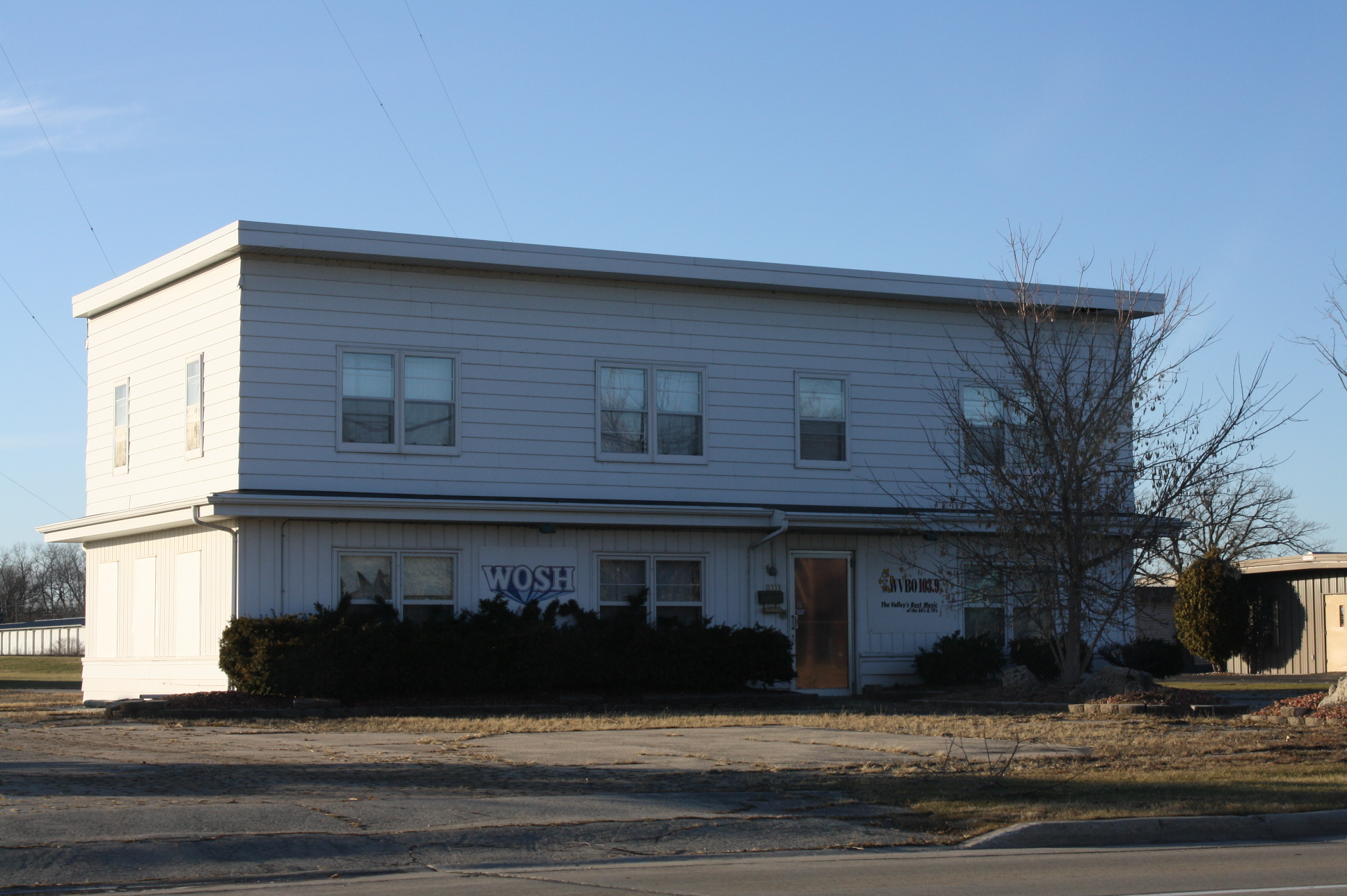 The radio studios for WOSH and WVBO in Oshkosh, Wisconsin.